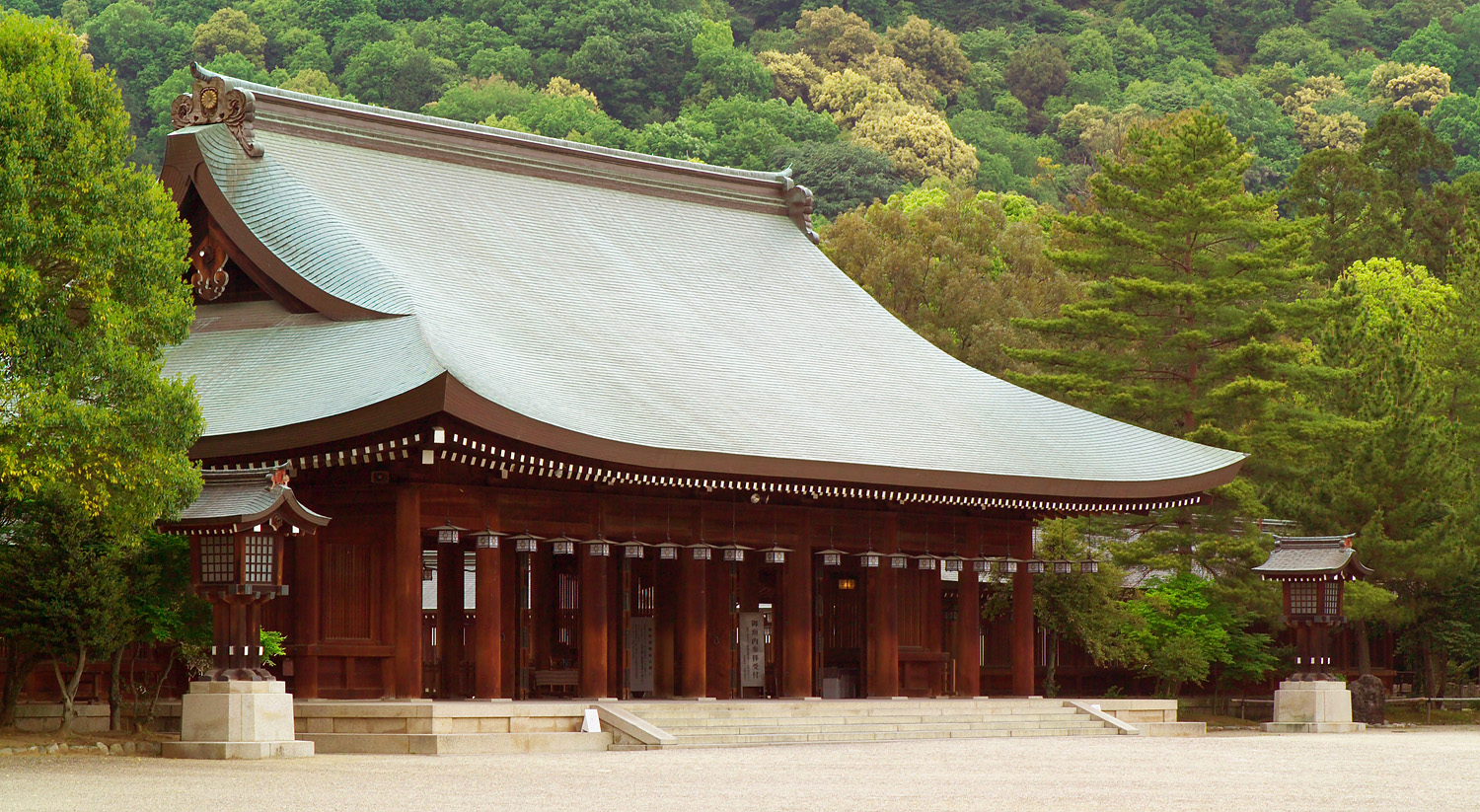 This photo shows the haiden (prayer hall) at the Kashihara Shrine in the city of Kashihara, Nara, Japan